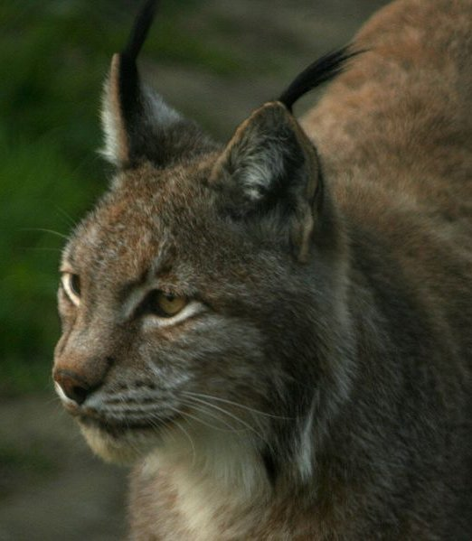 Eurasian Lynx in Białowieża